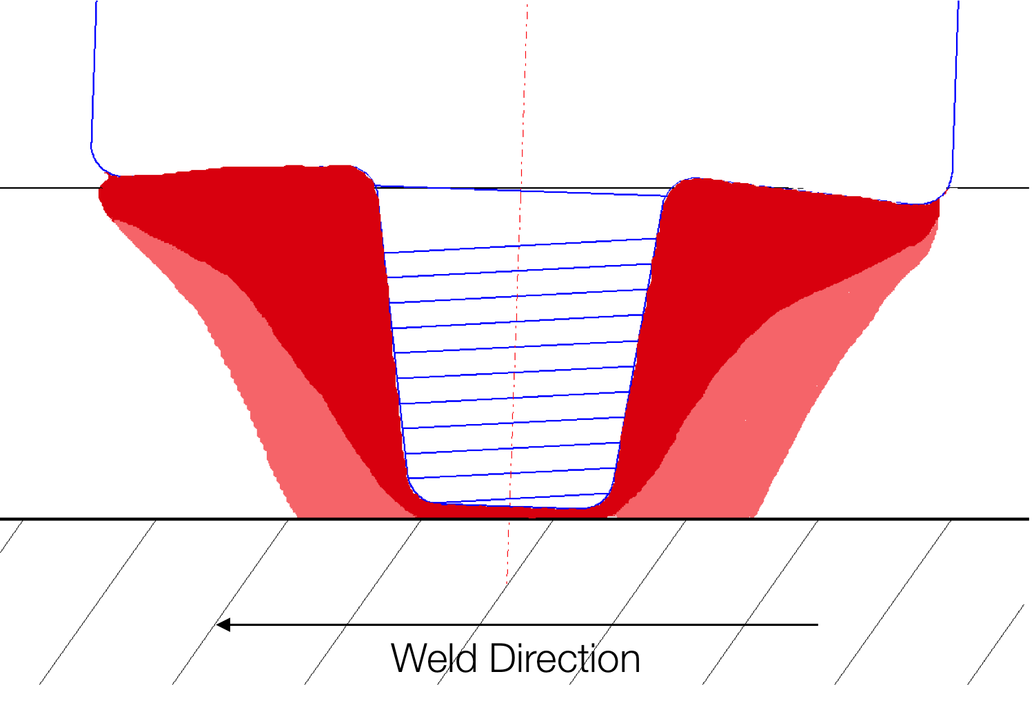 This image is just a small edit by me to the image originally uploaded by user Jtmonone~commonswiki as Fsw periaate poikkileikkaus pit paine.png to wikimedia commons. This image shows a schematic of the geometry of a friction stir weld pass. It specifically shows the tool (centered, with threads), along with schematic envelopes for the thermo-mechanically affected zone (TMAZ, in red), and the heat affected zone (HAZ) in pink. Note the small, intentional cant of the tool such that additional pressure is generated on the backside of the weld, improving weld quality. Note that the size and shape of the TMAZ and HAZ will be a function of the welding parameters and material used.